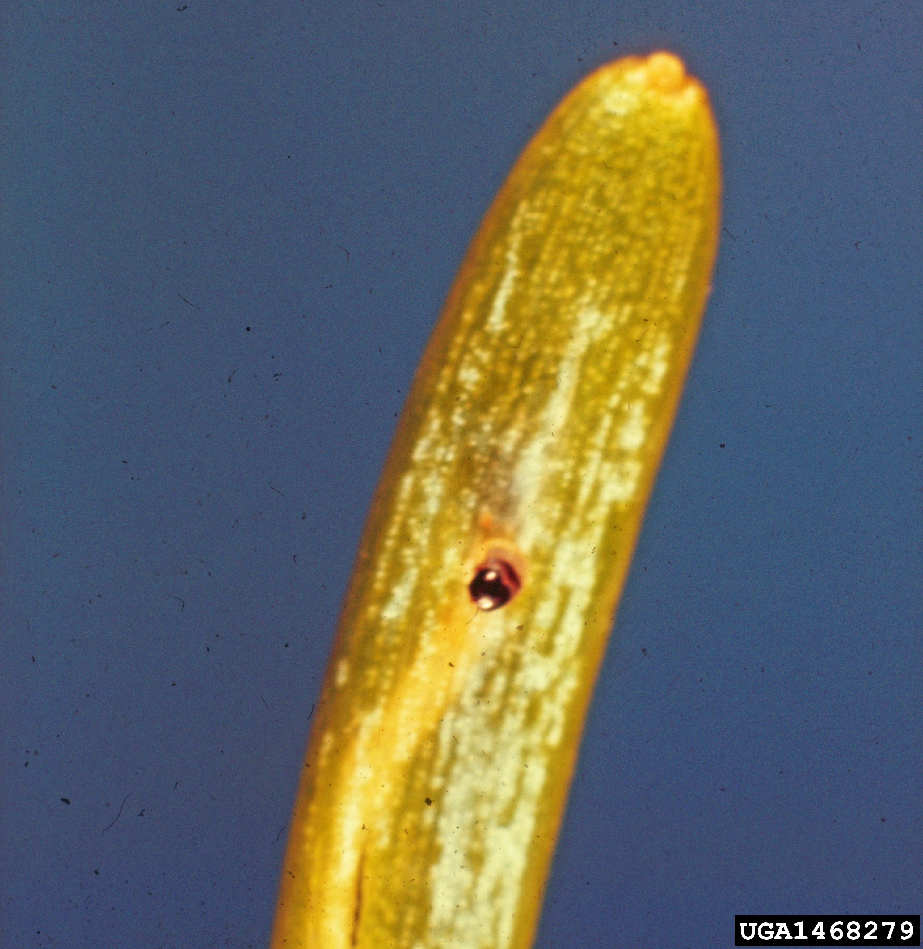 Epinotia meritana (White Fir Needleminer) larva on Abies concolor subsp. concolor, Bryce Canyon National Park, Utah, United States